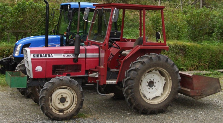 A Shibaura SD5040D tractor, built 1987, and a newer New Holland tractor behind.